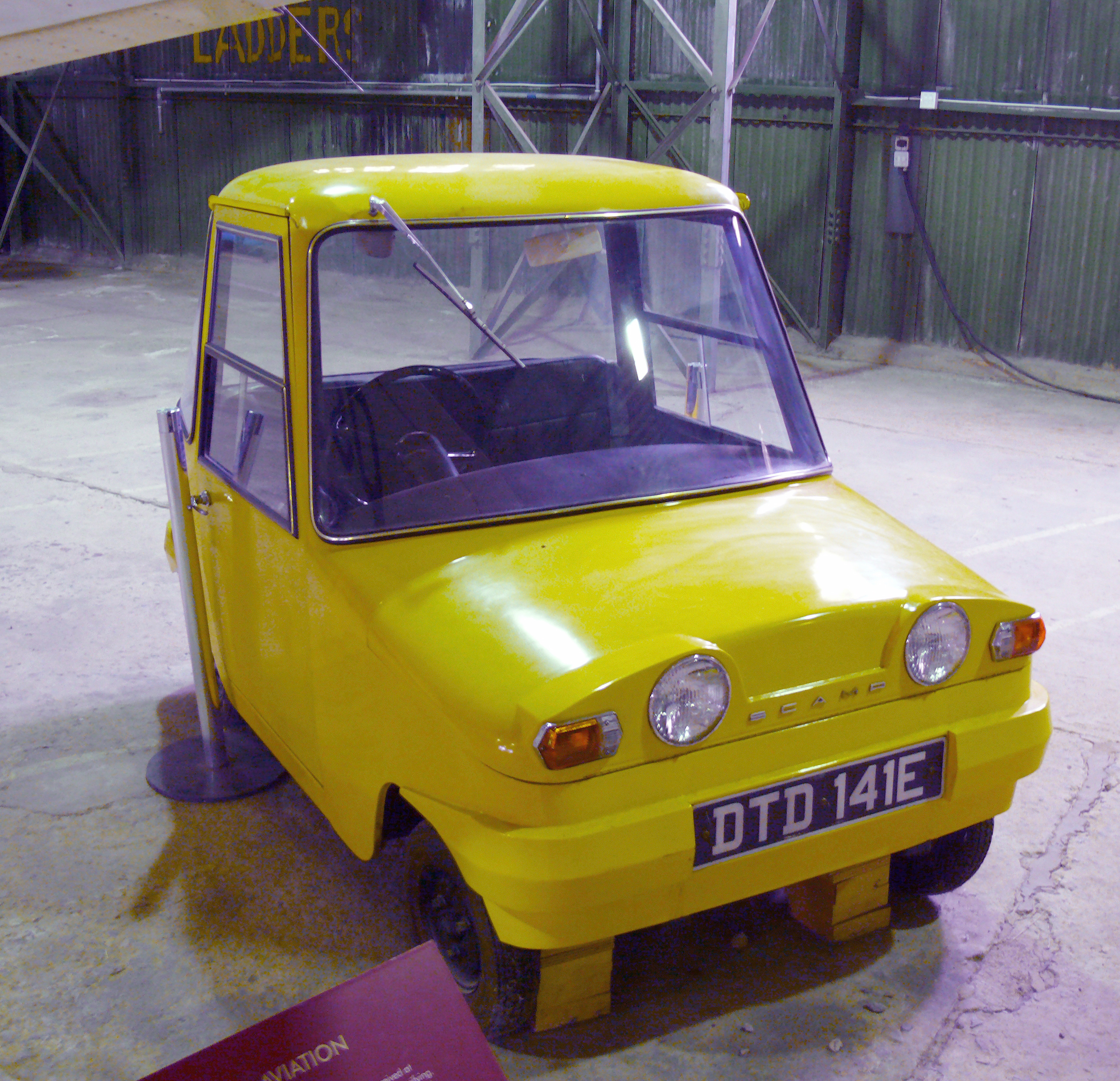 Scottish Aviation Scamp, a small concept electric city car that was designed between 1964 and 1966 by Scottish Aviation, in the National Museum of Flight in East Fortune, East Lothian, Scotland.